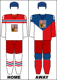 The home and away jerseys of the Czech national ice hockey team with the coat of arms of the Czech Republic.